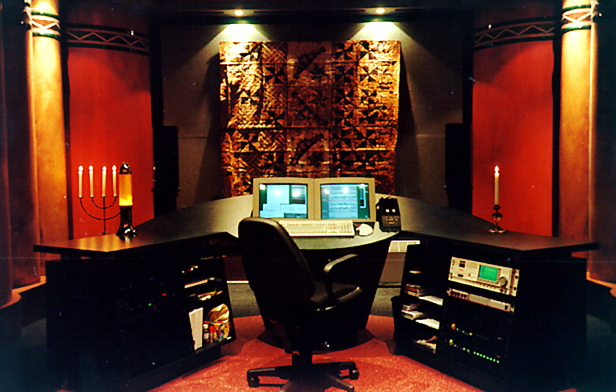 Mastering Room at Studio 2, Shortland Street facility